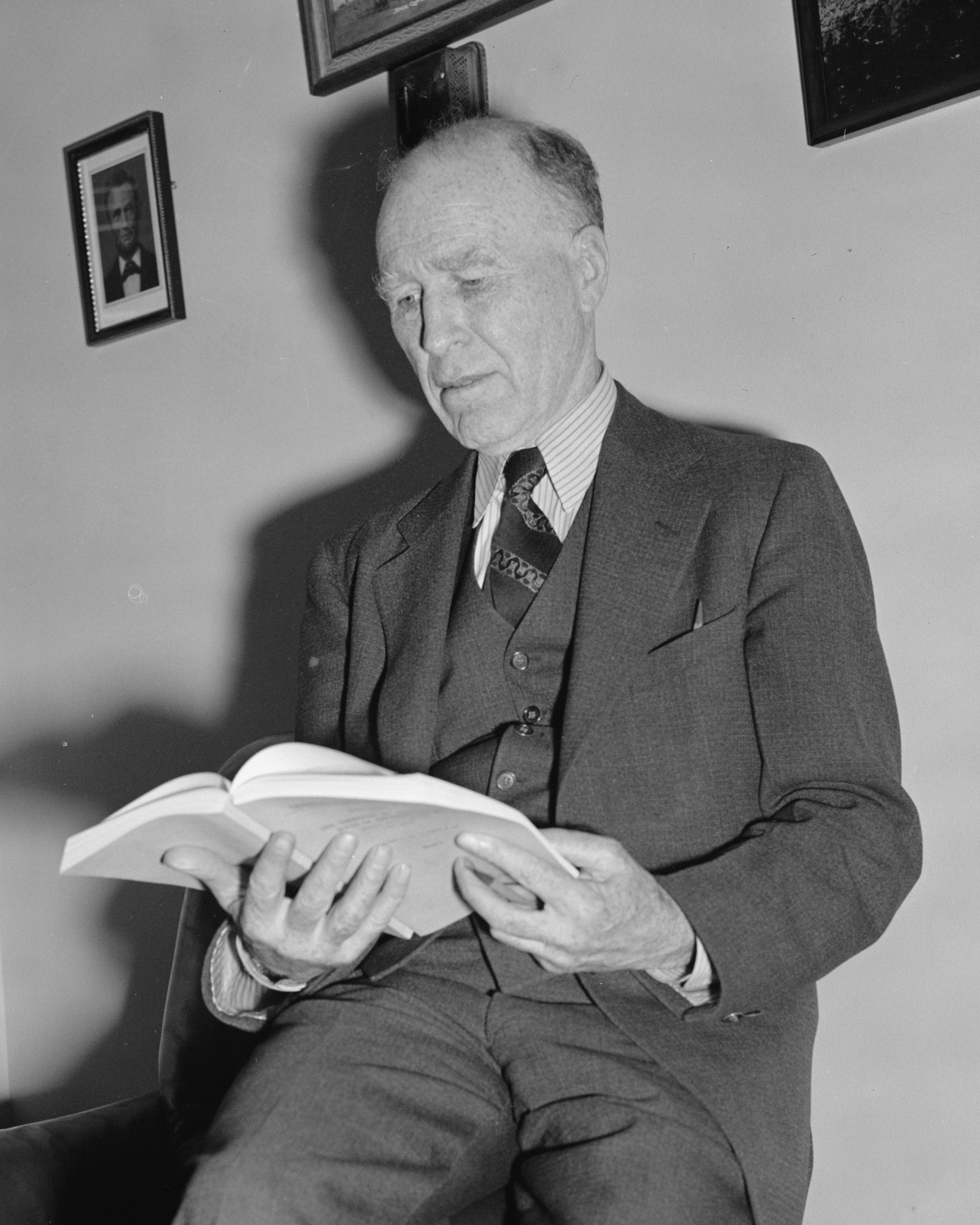 Title: Rep. William Lemke for Fraiser. A new informal pix of Rep. William Lemke Abstract/medium: 1 negative : glass ; 4 x 5 in. or smaller